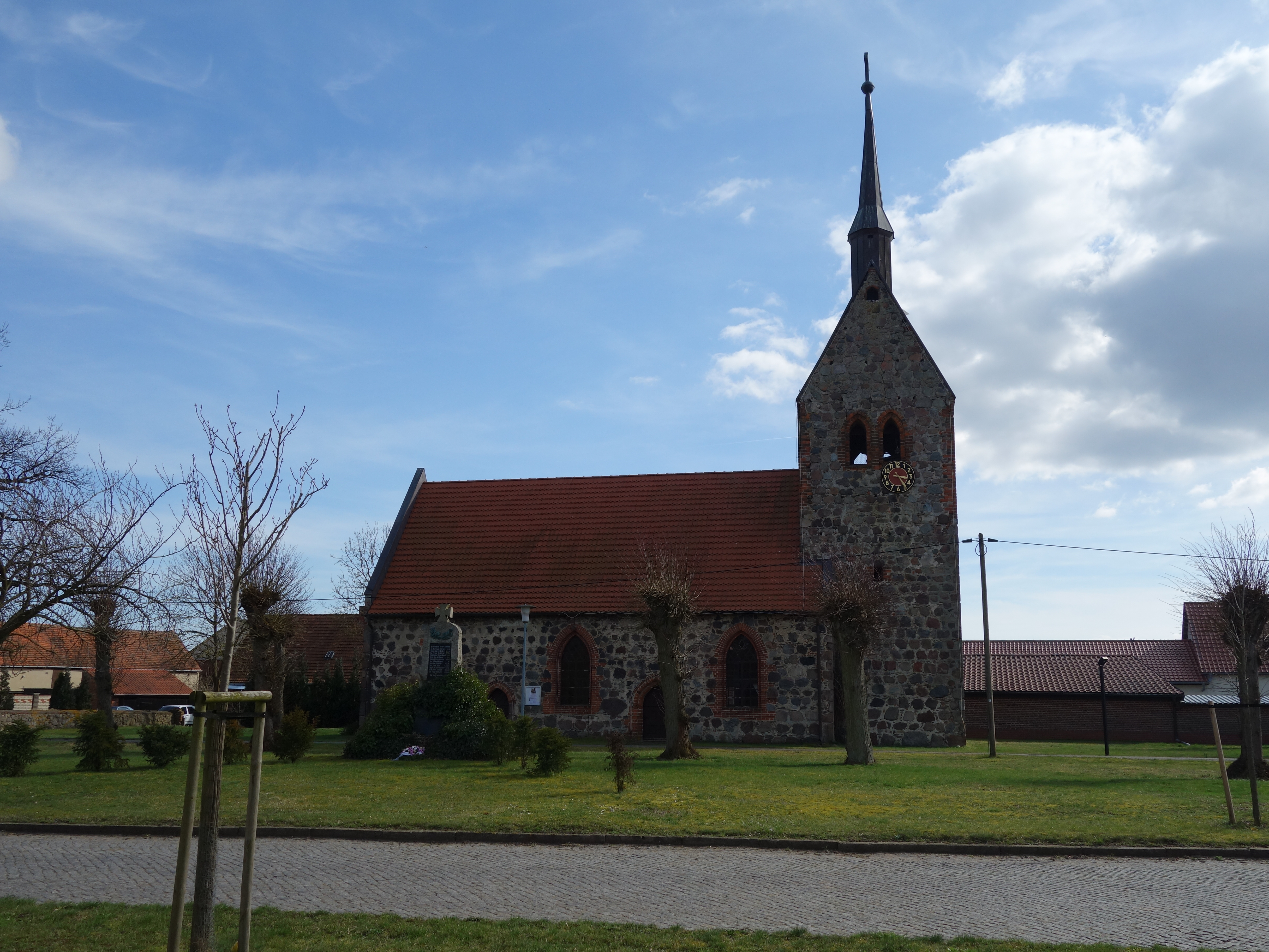 Northern view of church in Bendelin, Plattenburg municipality, Prignitz district, Brandenburg state, Germany